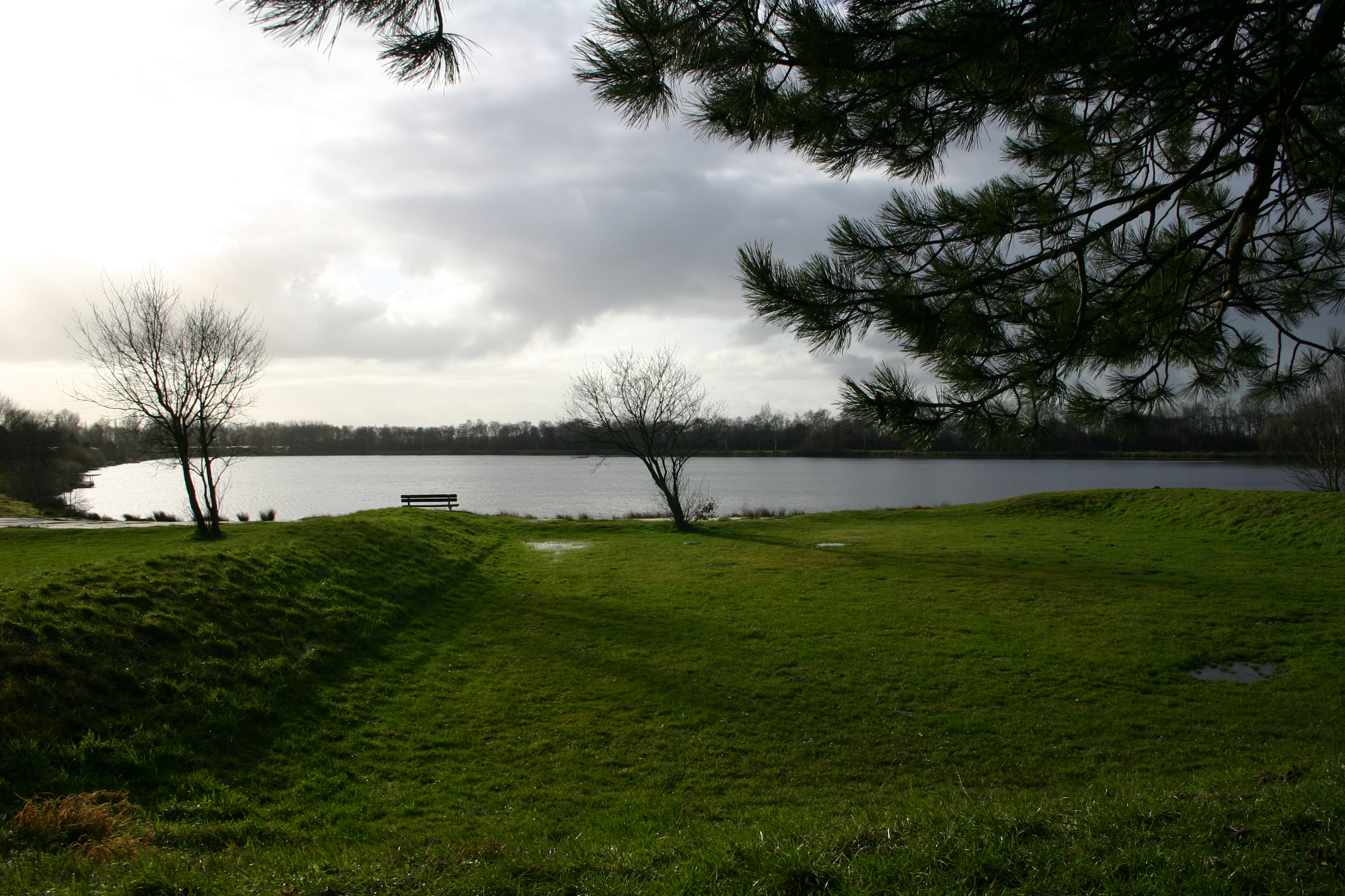 Jümmesee (Jümme lake) near Detern, district of Leer, East Frisia, Germany